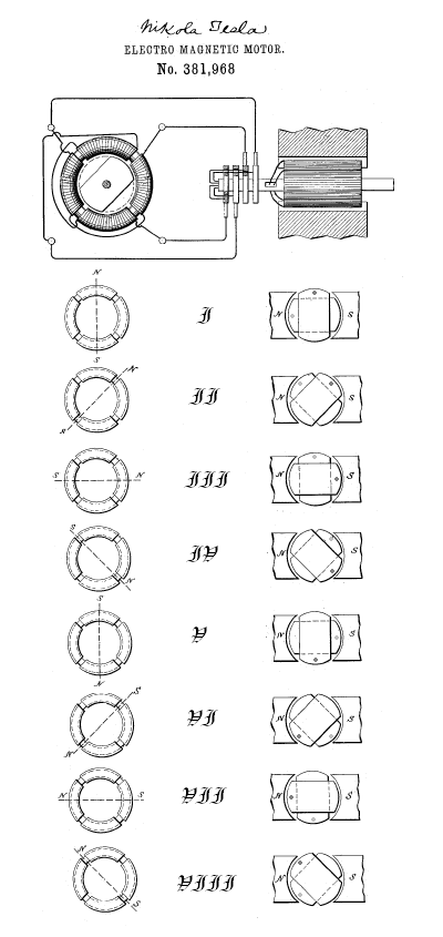 A rotating magnetic field is a magnetic field which periodically changes direction. This is a key principle to the operation of alternating-current motor. In 1882, Nikola Tesla identified the concept of the rotating magnetic field. In 1888, Tesla gained U.S. Patent 381968 for his work. ....